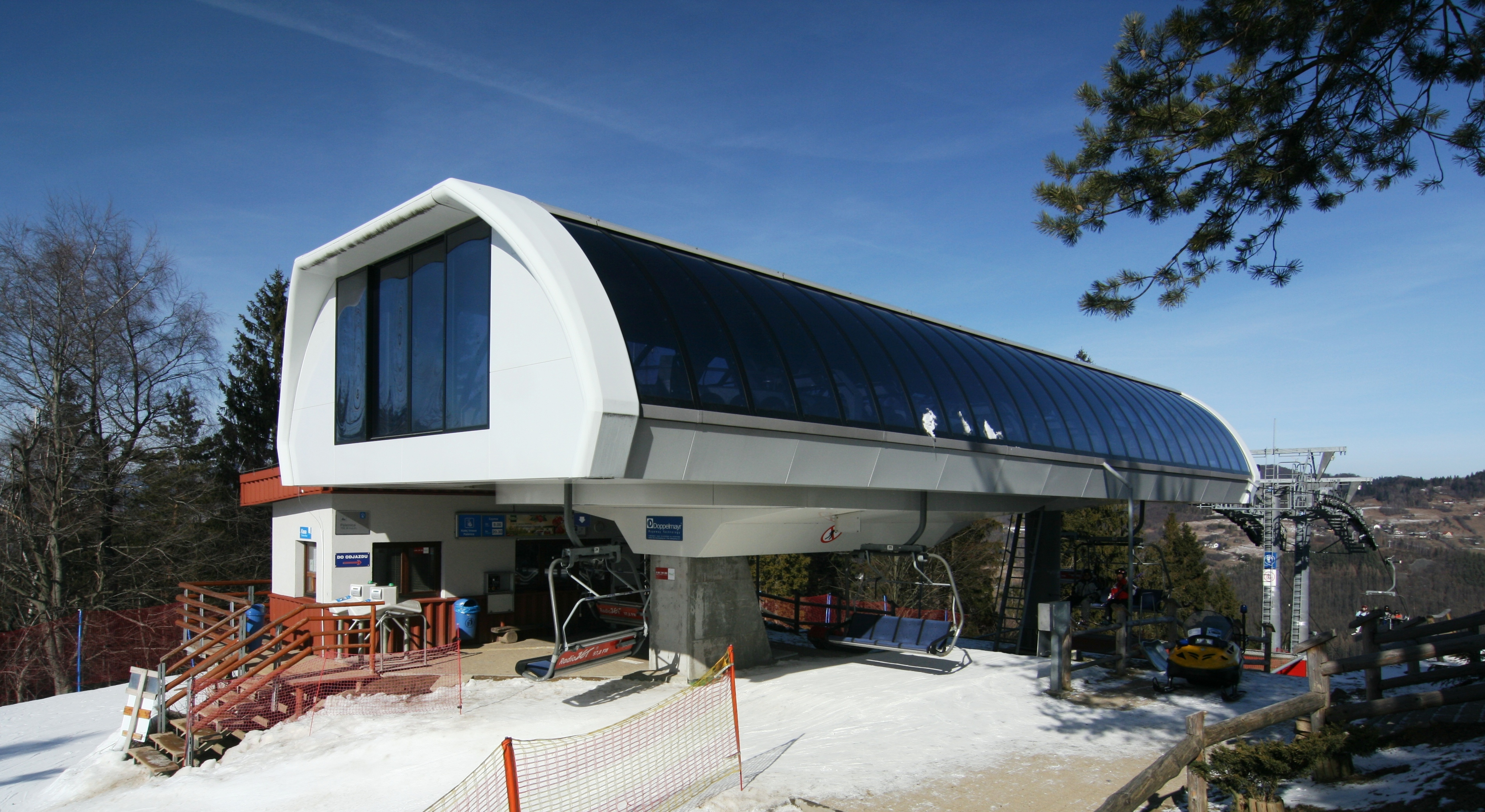 Upper terminal of Palenica chairlift